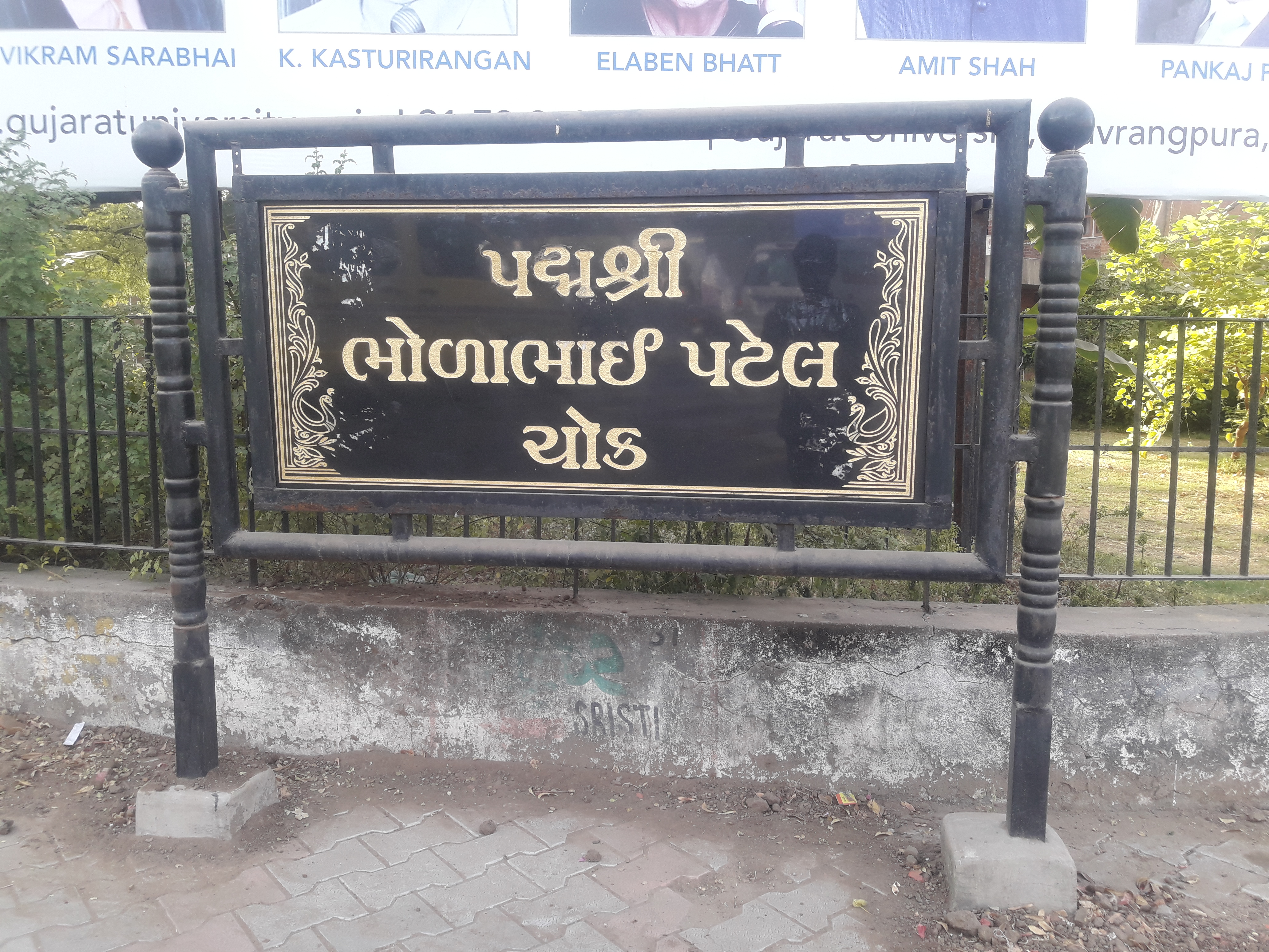 Padmashri Bholabhai Patel Circle (Chowk) on Gujarat University Road, Ahmedabad, Gujarat, India ગુજરાતી: પદ્મશ્રી ભોળાભાઈ પટેલ ચોક, યુનિવર્સિટી રોડ, અમદાવાદ, ગુજરાત